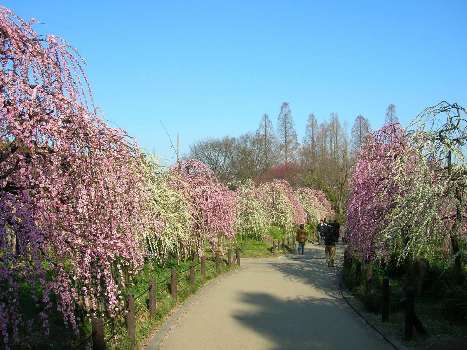 Nagoya Agricultural Center. Weeping plum trees. Loc: Tenpaku-ku, Nagoya city, Aichi Prefecture, Japan. 名古屋市農業センター、枝垂れ梅の梅林 愛知県名古屋市天白区